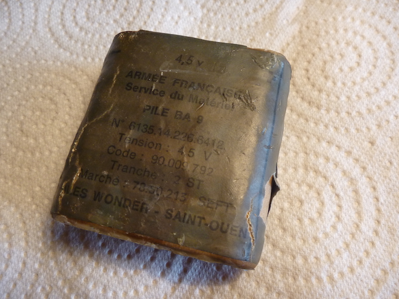 Battery type BA9 manufactured by Wonder ( France ) for French Army. That is similar to civil model 3(L)R12 @ 4.5 V. The picture shows a battery 25 years old.